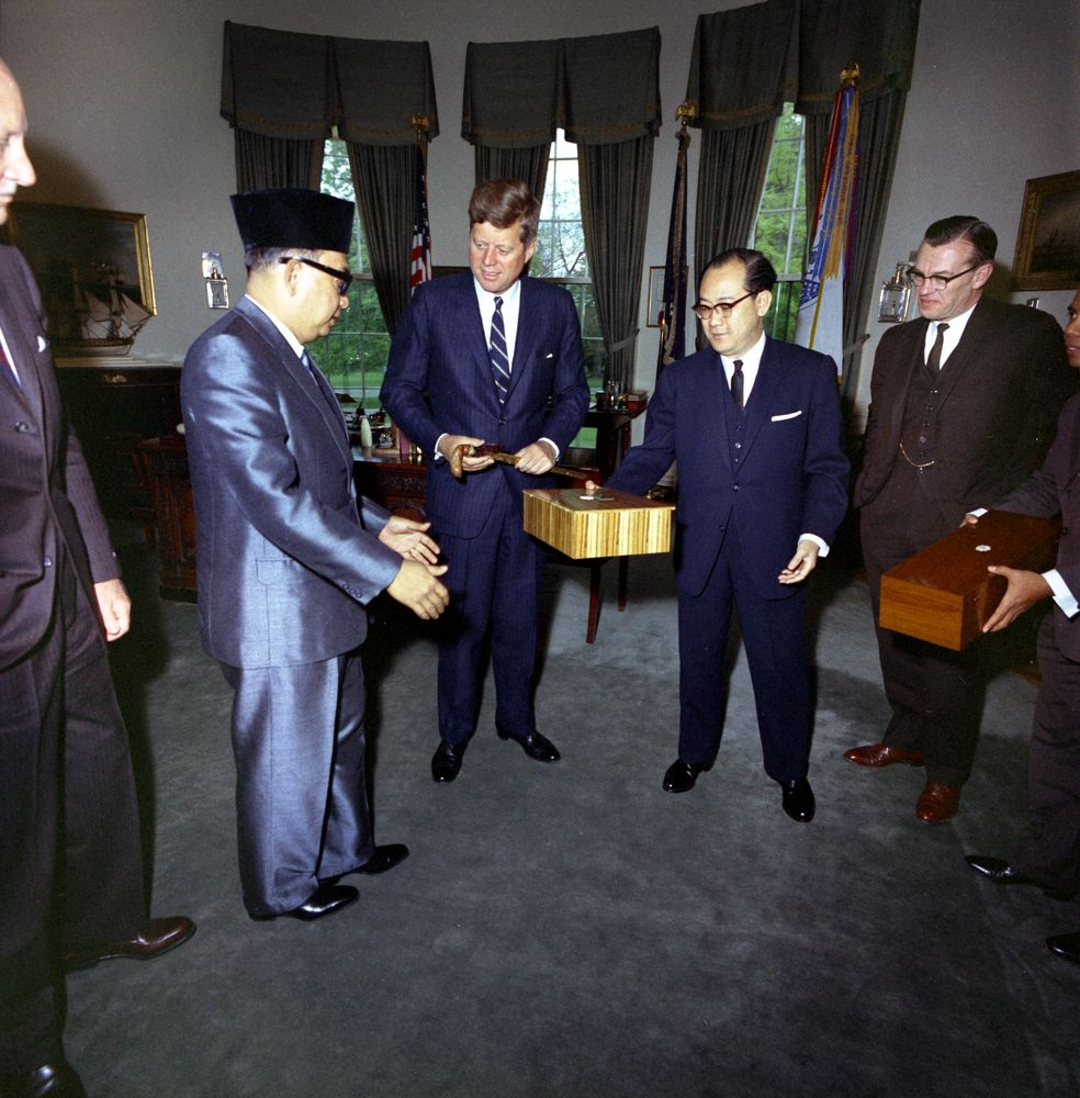 KN-C28089 President John F. Kennedy exchanges gifts with Deputy Prime Minister and Minister of Defense of Malaya, Tun Abdul Razak Hussein, during a meeting in the Oval Office. Left to right: U.S. Ambassador to Malaya, Charles F. Baldwin (on edge of frame); Tun Razak; President Kennedy; Ambassador of Malaya, Omar Ong Yoke Lin; U.S. Assistant Secretary of State for Far Eastern Affairs, Roger Hilsman; unidentified (on edge of frame). White House, Washington, D.C. [See also MO 74.334a-b, "Jeweled kris and sheath"]